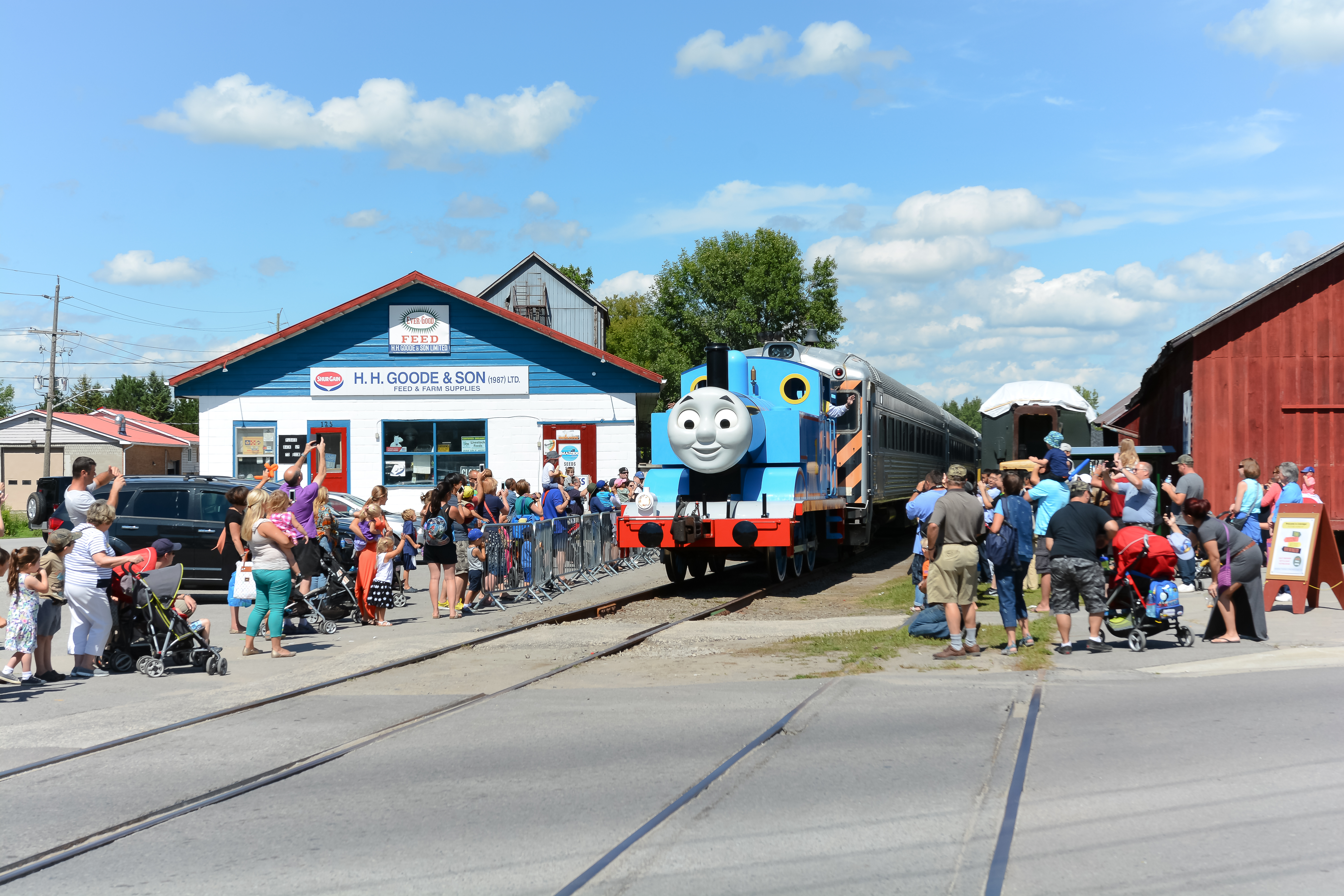 Thomas always stands out in a crowd!